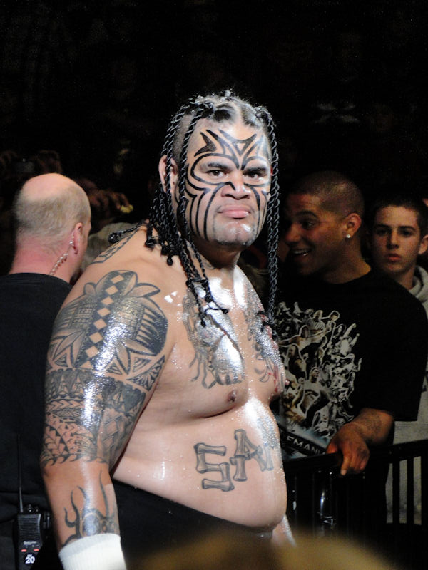 Eddie Fatu as Umaga in 2009